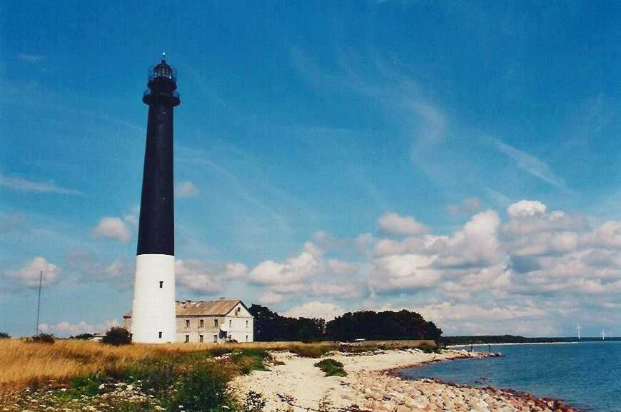 Sorve lighthouse